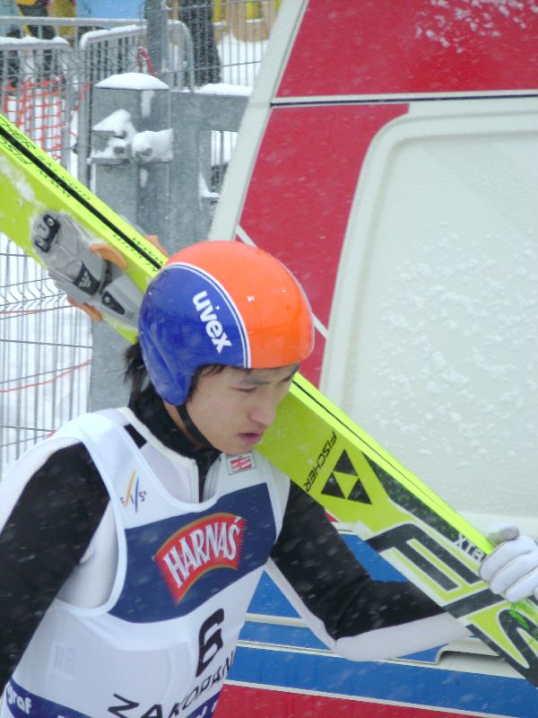 ski jumper Heung-Chul Choi from South Korea during the World Cup in Zakopane on 27-1-2008